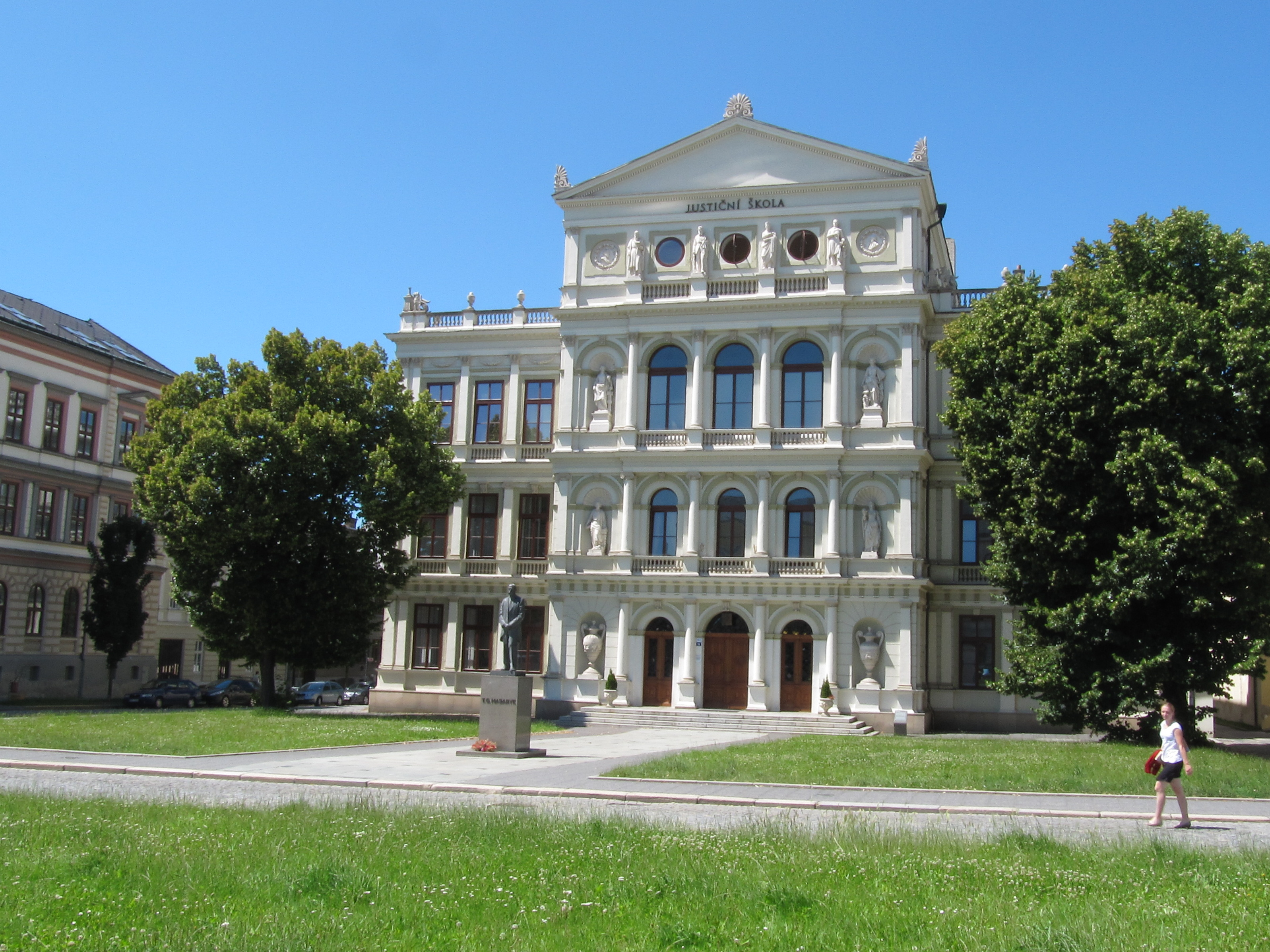 Kroměříž, Czech Republic. Grammar school.